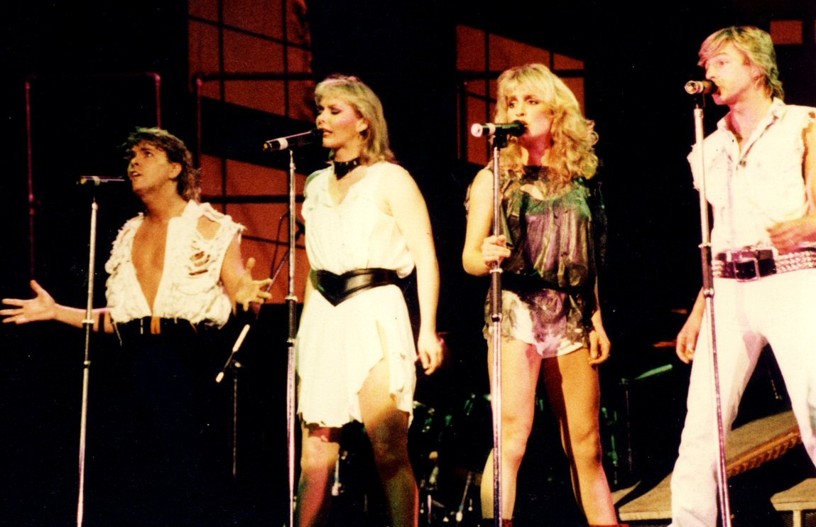 biography picture